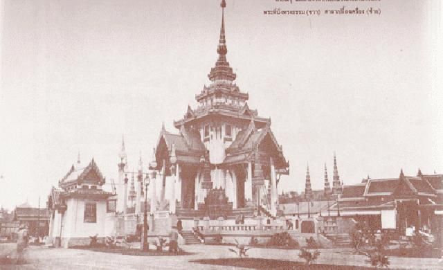 The cremation pyre of Mahidol Adulyadej, Prince of Songkla the father of King Ananda Mahidol (Rama VIII) and King Bhumibol Adulyadej (Rama IX) of Thailand